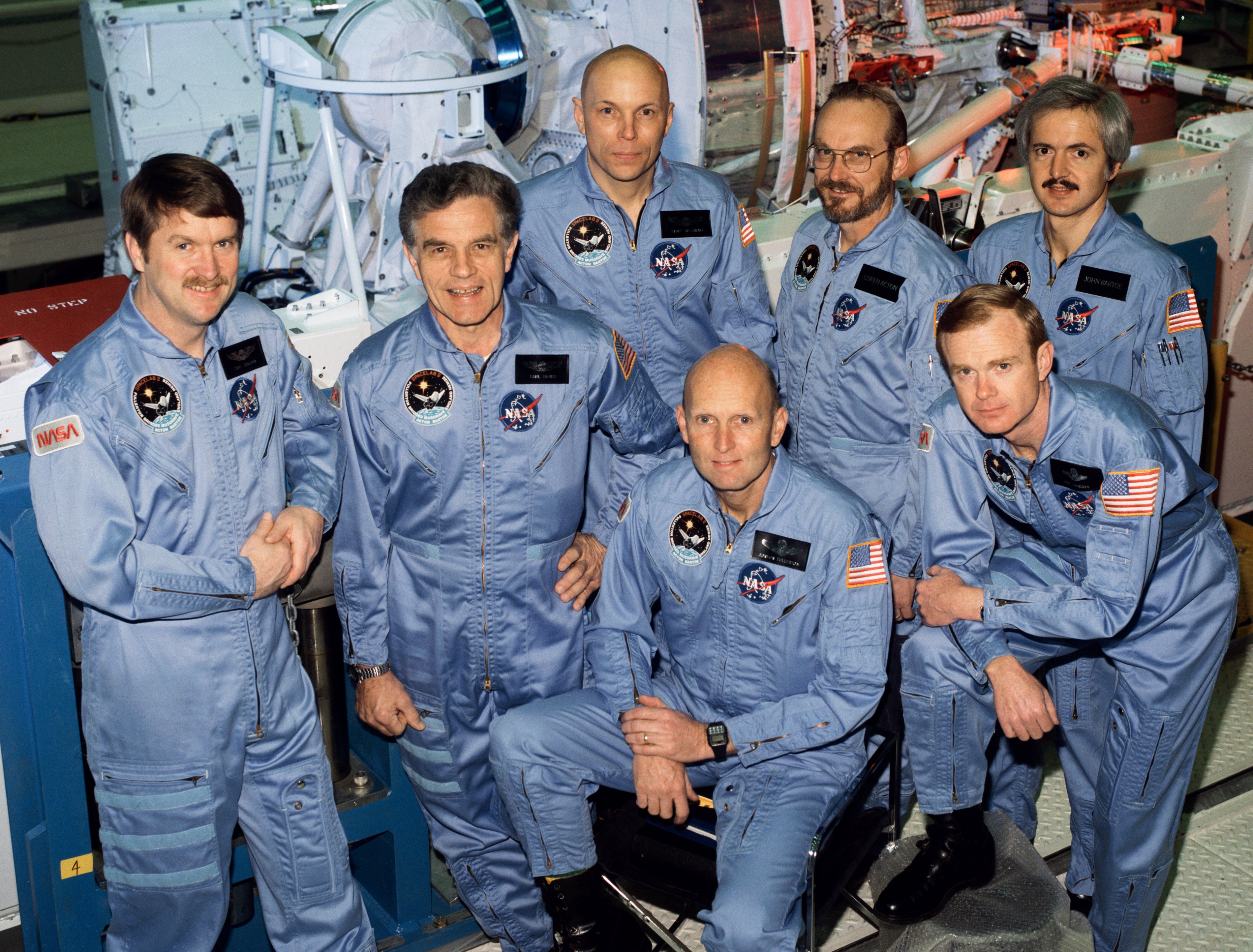 The crew assigned to the STS-51F mission included (kneeling left to right) Gordon Fullerton, commander; and Roy D. Bridges, pilot. Standing, left to right, are mission specialists Anthony W. England, Karl G. Henize, and F. Story Musgrave; and payload specialists Loren W. Acton, and John-David F. Bartoe. Launched aboard the Space Shuttle Challenger on July 29, 1985 at 5:00:00 pm (EDT), the STS-51F mission's primary payload was the Spacelab-2.